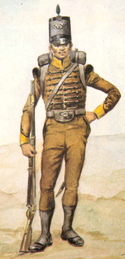 A soldier (rifleman) of the 6th Portuguese Caçadores in 1811